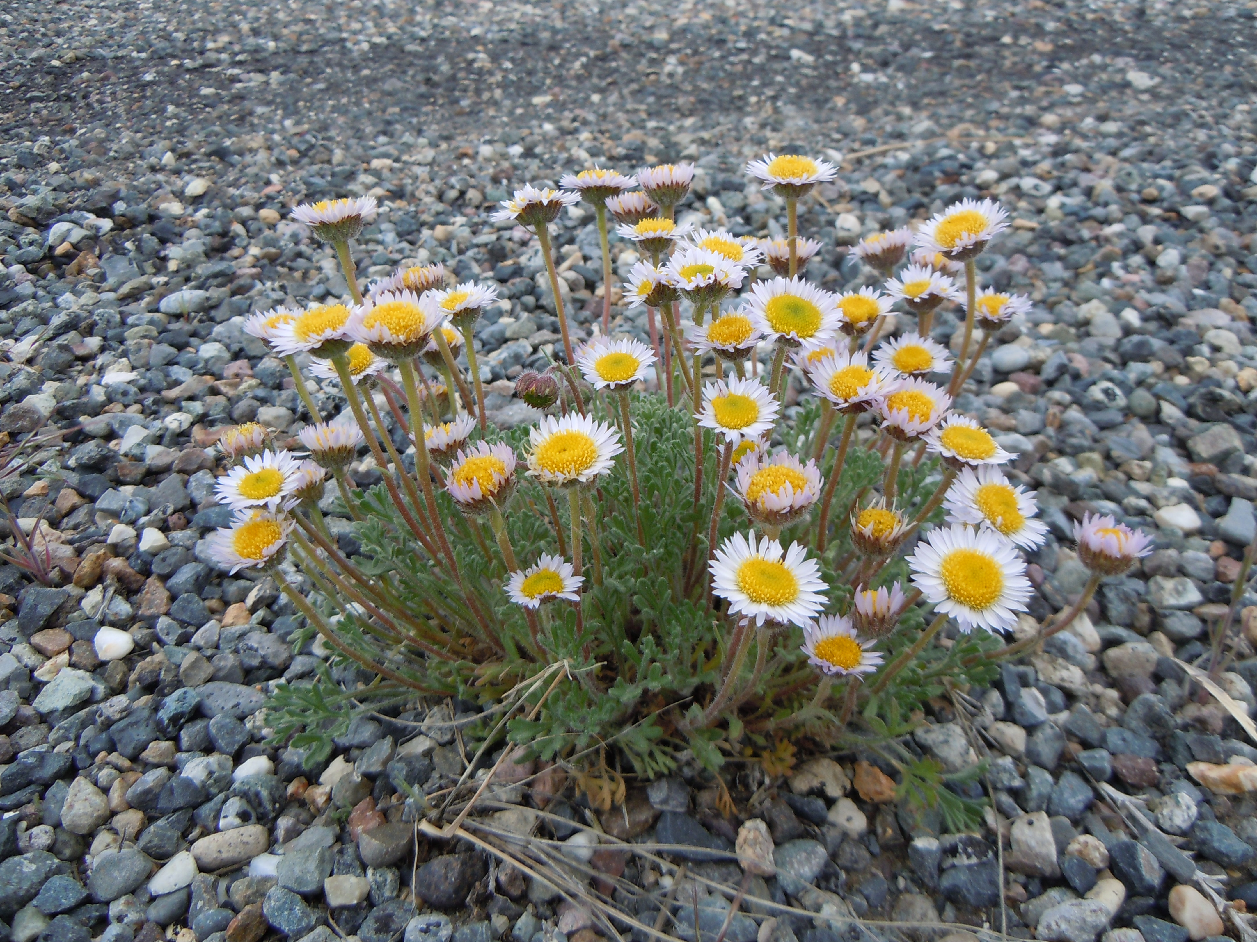 Although somewhat common at higher elevations in the surrounding mountains, especially along rocky ridges, Erigeron compositus is found in the INL Wyoming big sagebrush steppe only along gravelly roadsides. This suggests something about the stability of this sagebrush steppe and the disturbance-proneness of higher elevation rocky ridges.